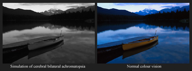 Bilateral achromatopsia vs. normal vision